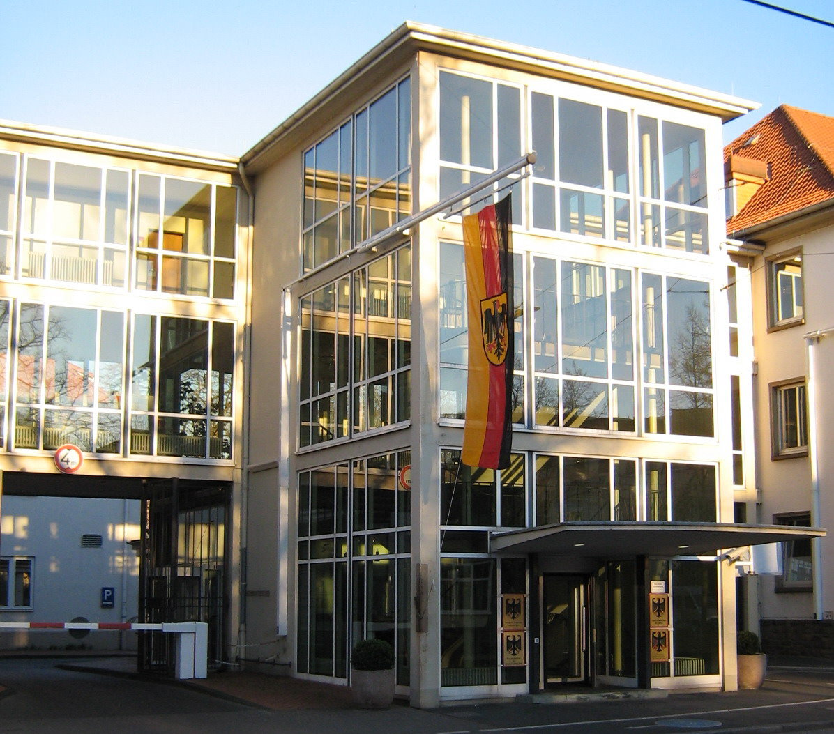 Entrance to the Federal Ministry of the Interior, Bonn office and the branch office of the Federal Statistical Office in Bonn.